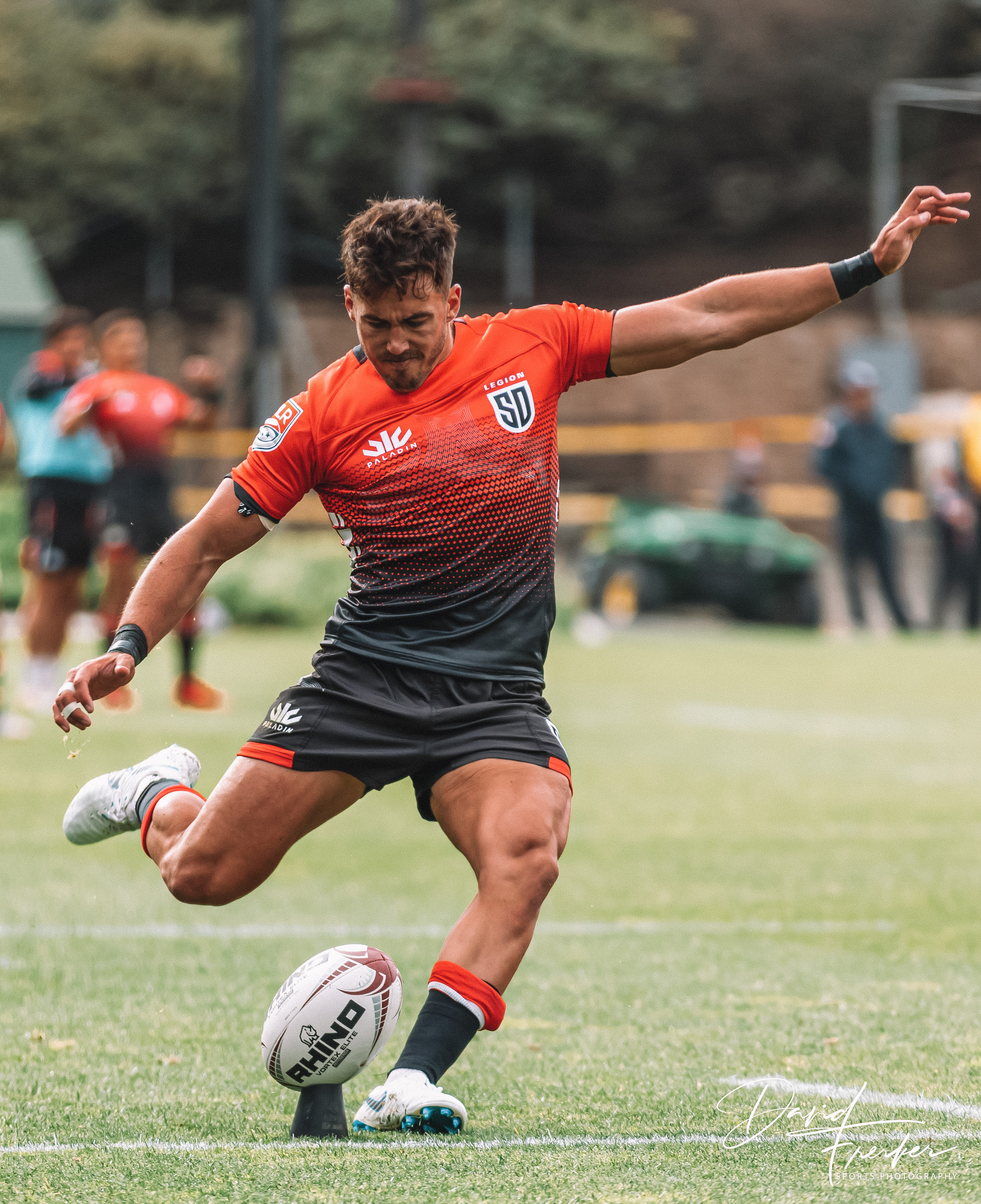 Burton, goal kicking for San Diego Legion.